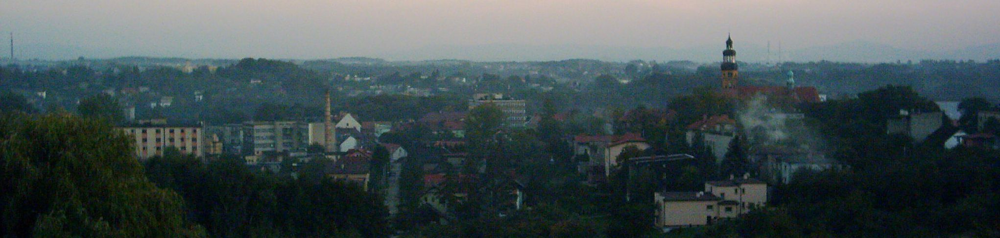 Something in Wodzisław